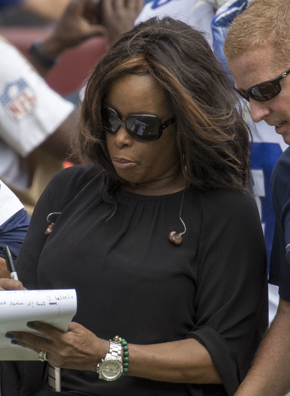 Pam Oliver and Jason Garrett in September, 2016